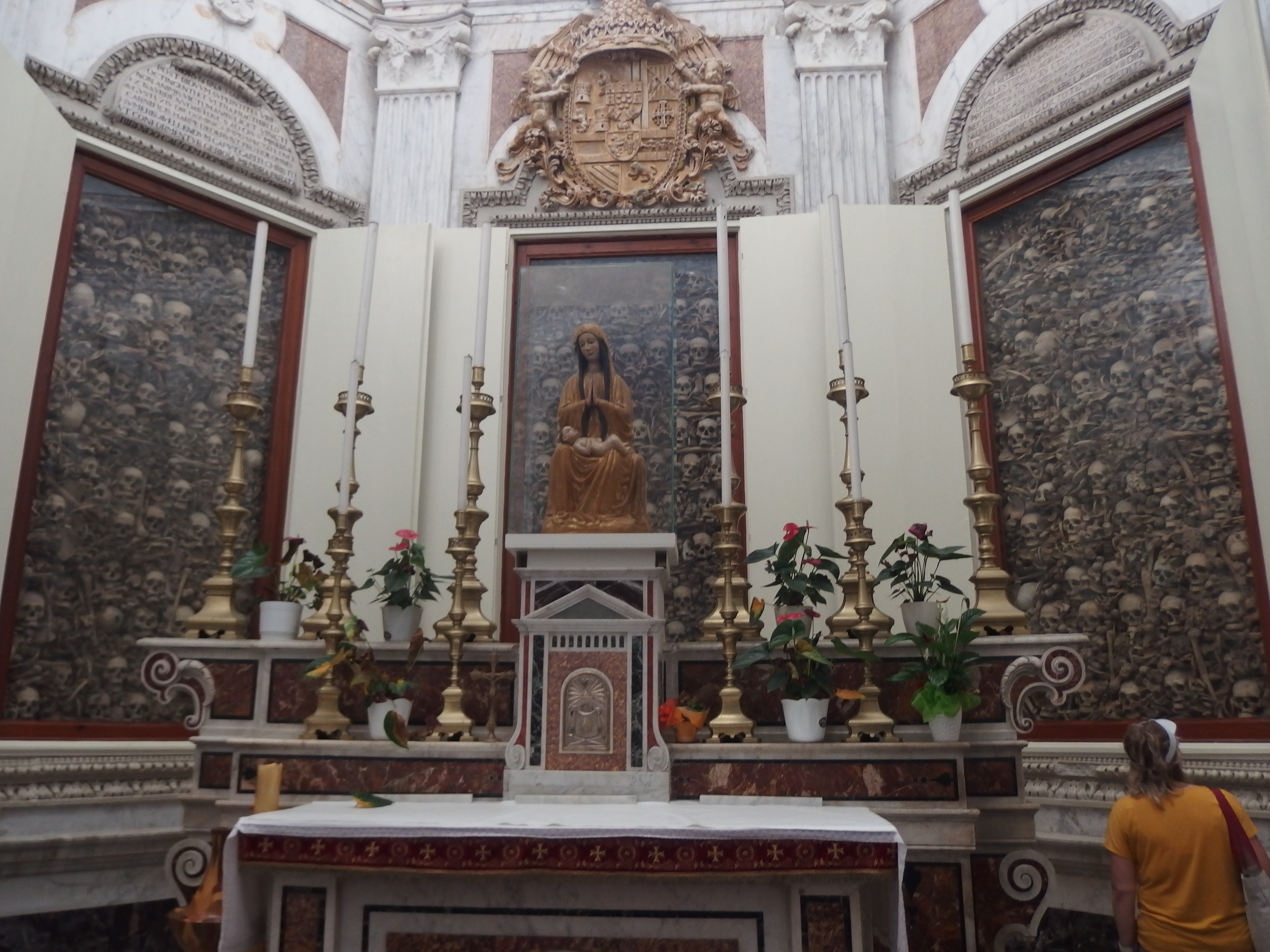 Otranto, Apulia, Italy. Interior of the cathedral.